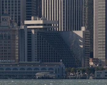 Detail of Five Embarcadero Center (Hyatt Regency San Francisco)